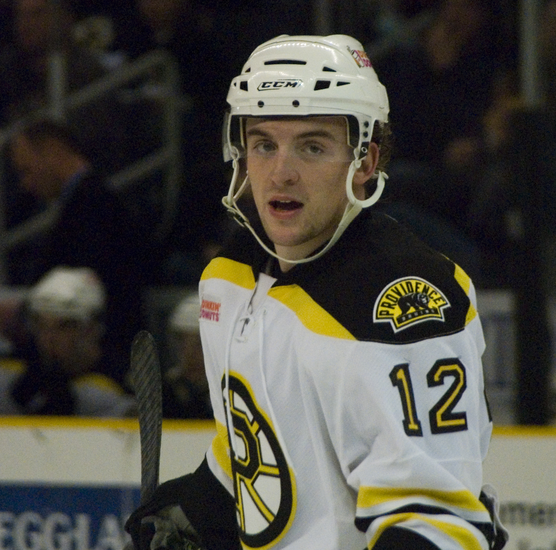 _ERI6280 Jamie Arniel during a Portland Pirates vs Providence Bruins game Providence wins 5-4 in the last Friday game of the season! Photo taken by Sarah Connors at Providence, Rhode Island on April 8, 2011 using a Nikon D200. This photo also appears in sarah_connors' Flickr set: Portland @ Providence (Set of 115)